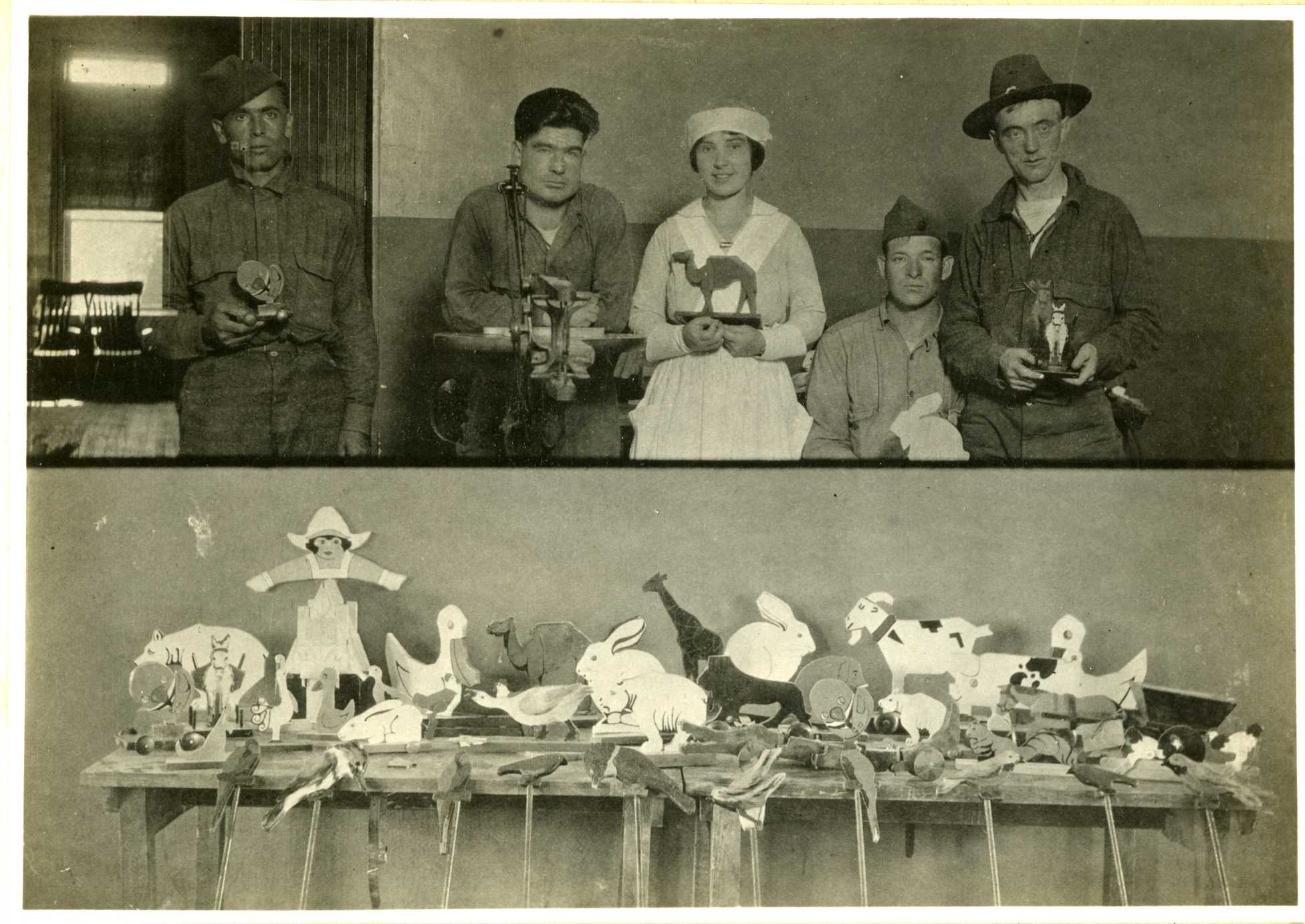 Occupational therapy. Toy making in psychiatric hospital. World War 1 era. Selected by Kathleen.